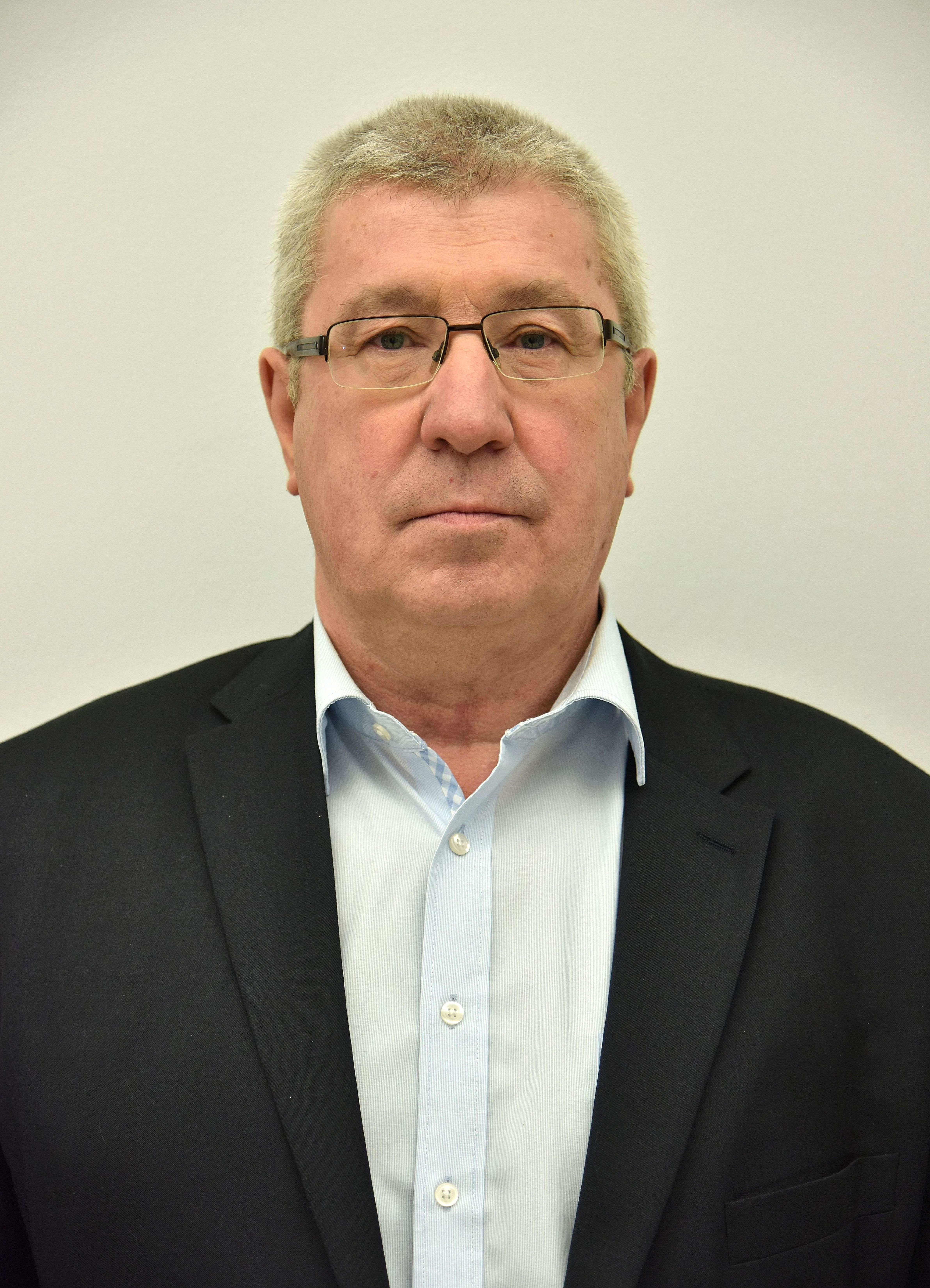 Jan Dworak in the Sejm